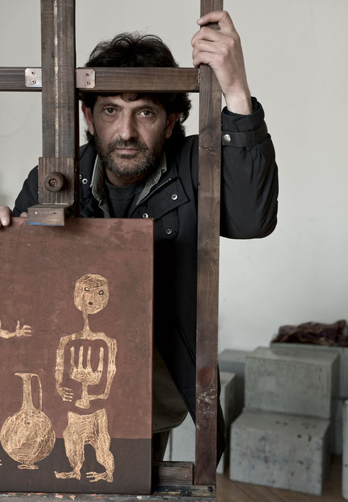 Ashot Avagyan in his studio in Sisian.